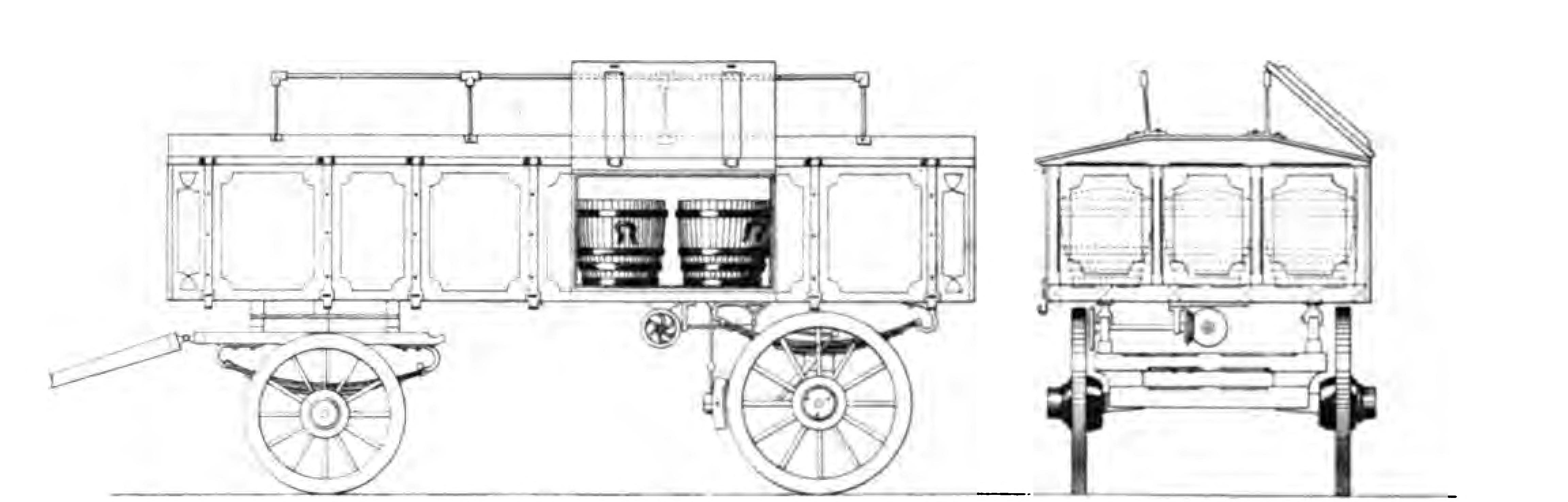 A wagon used for transporting nightsoil pails, in Rochdale